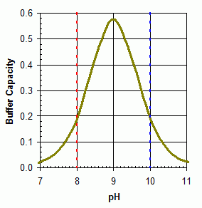 Buffer capacity of the boric acid - borate system versus pH assuming pKa = 9.0 (e.g. salt-water swimming pool)